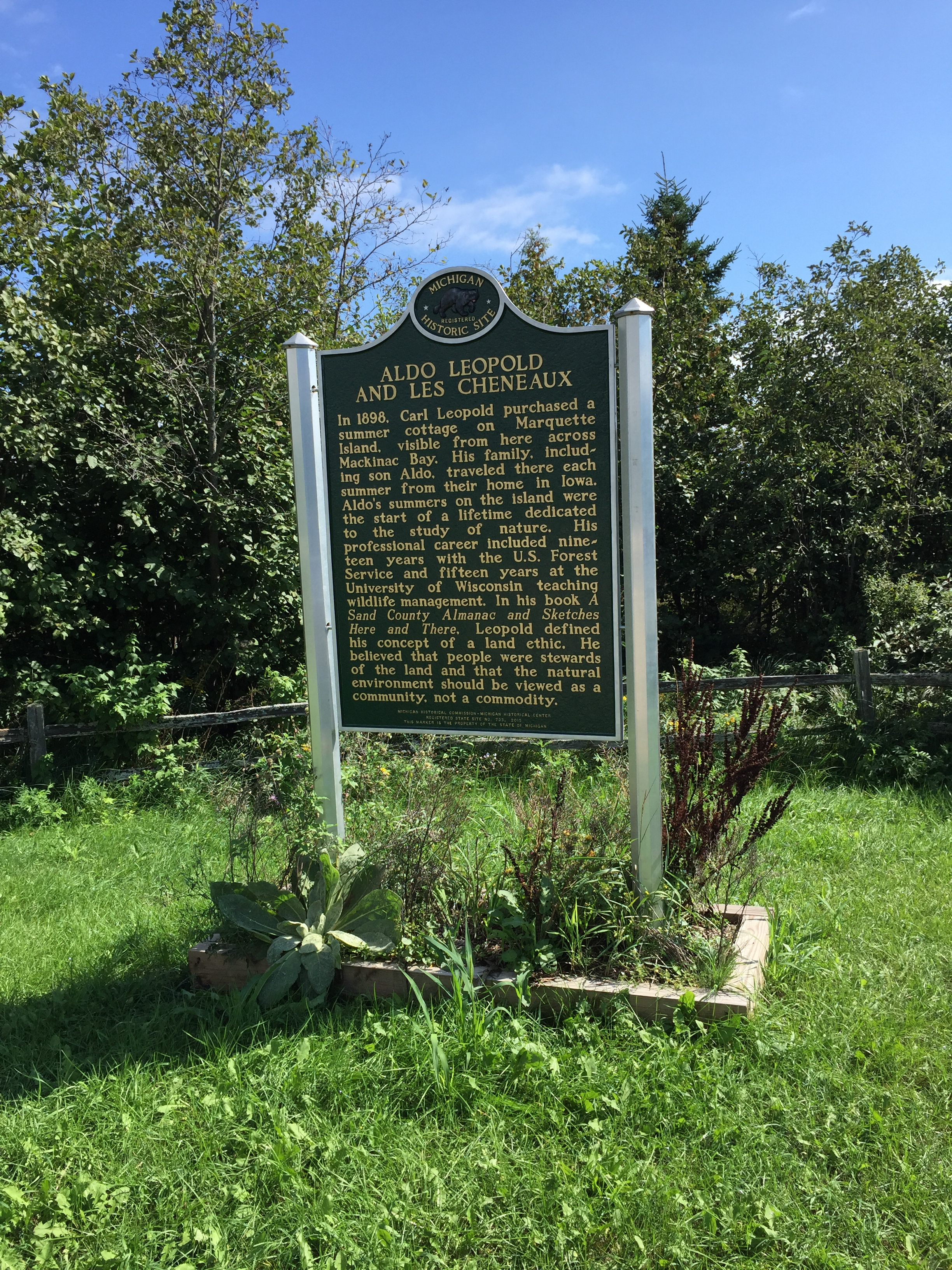 Michigan Historical Commission Registered State Site No. 735, 2015 Marker